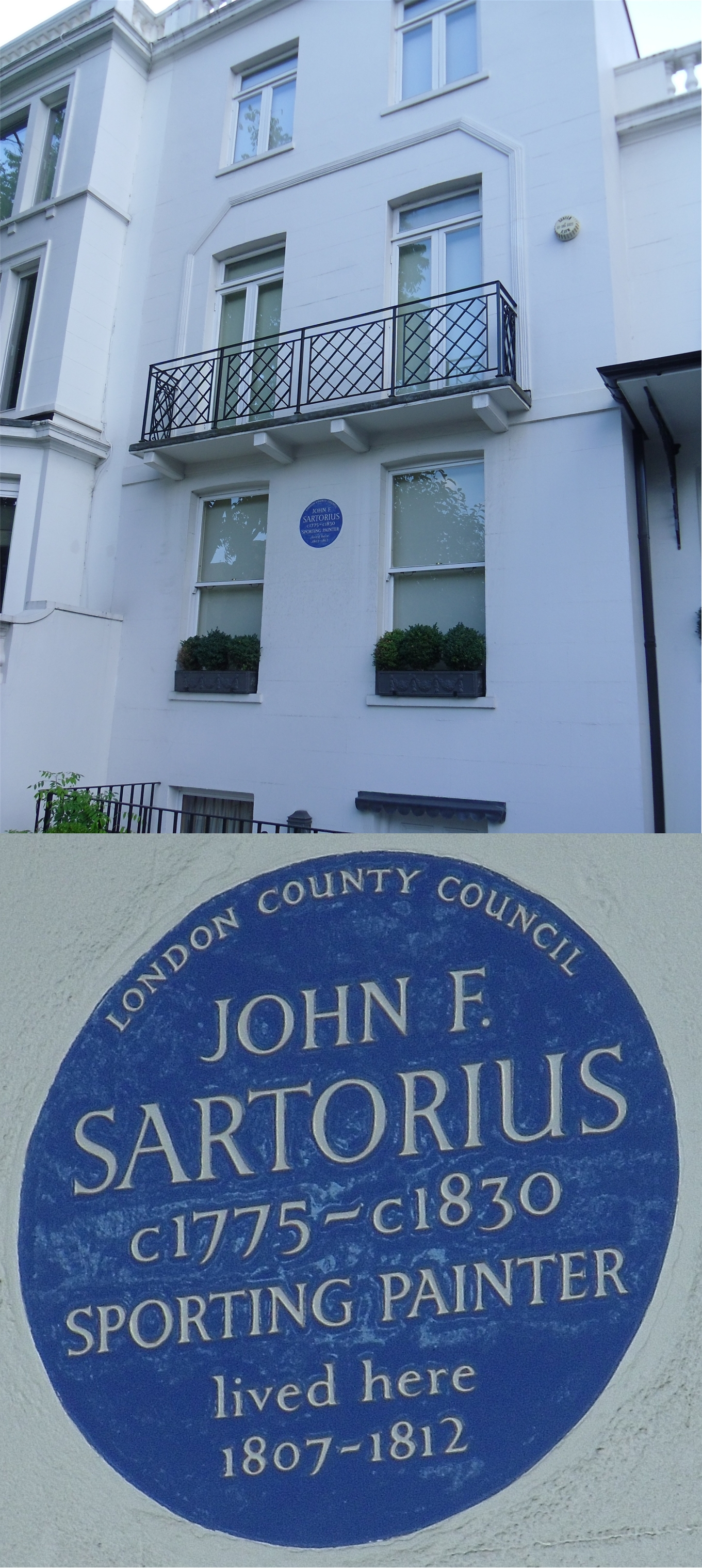 Image and detail of a plaque attached to the front of 155 Old Church Street, Chelsea, London SW7 where the artist John Sartorius lived for a number of years whilst in London.